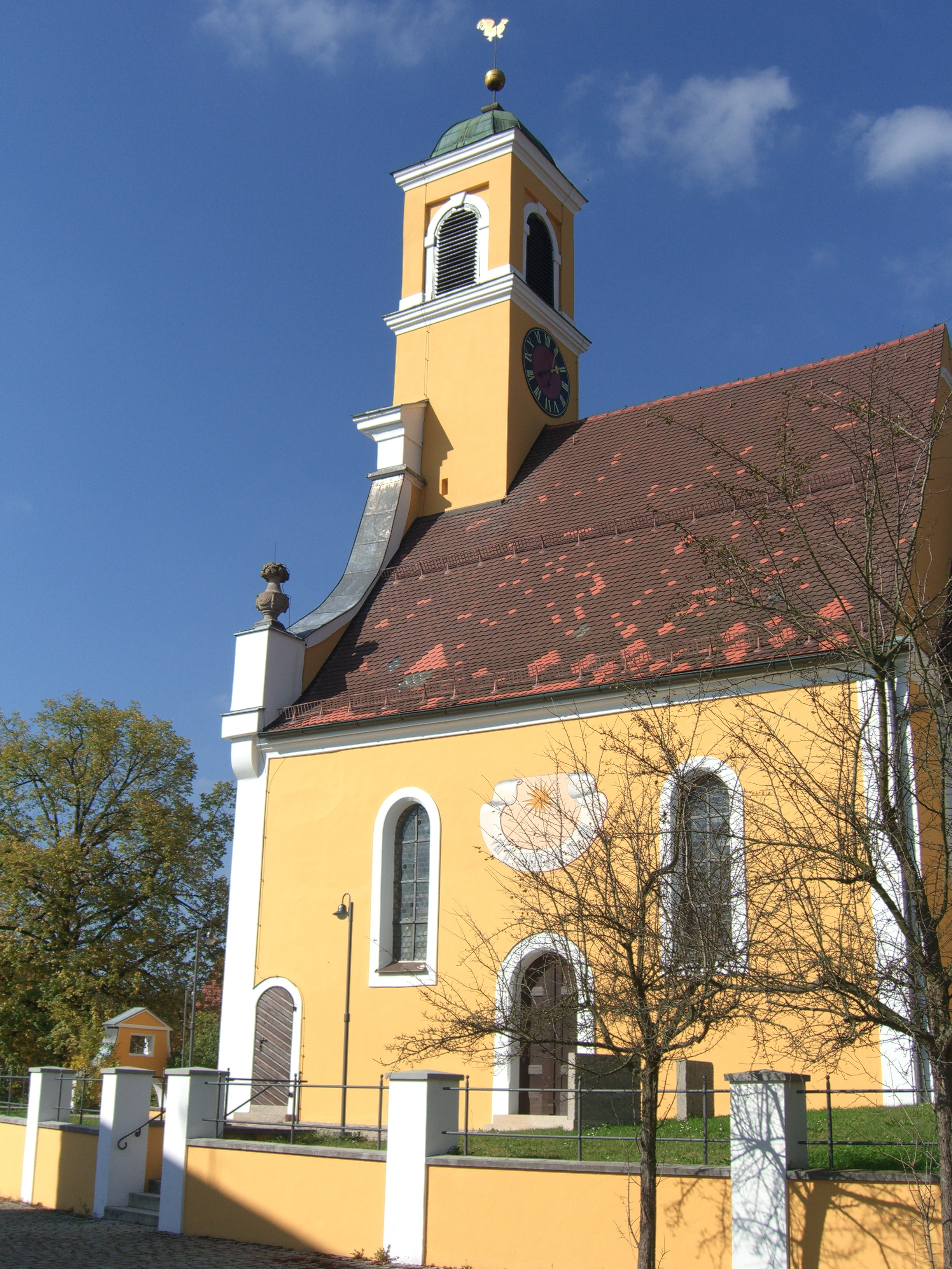 Tower and parts of the nave of the St. Georgs-Pfarrkirche (lutheran) in Igensdorf in Bavaria, Germany.